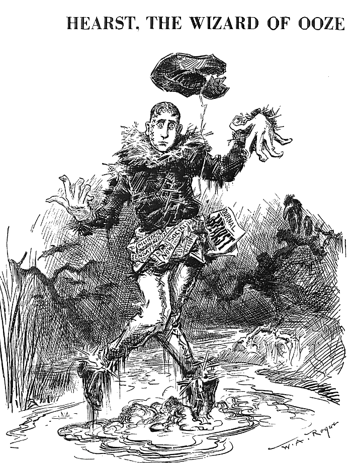 William Randloph Hearst caricatured as Oz character in 1906 magazine cartoon.